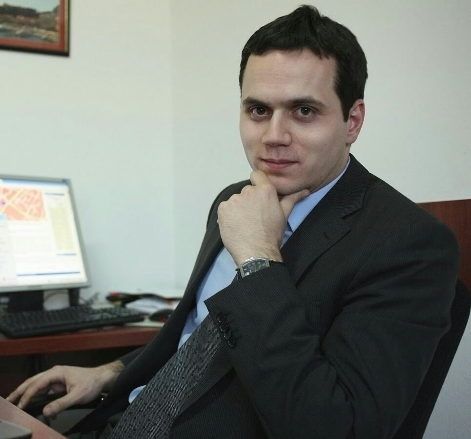 Milos Grujic profile